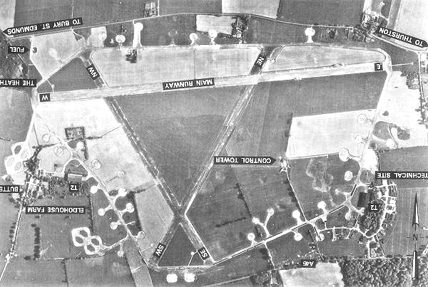 Aerial photograph of Bury St. Edmunds Airfield, England. NOTE : this vertion is inverted to place North at top.